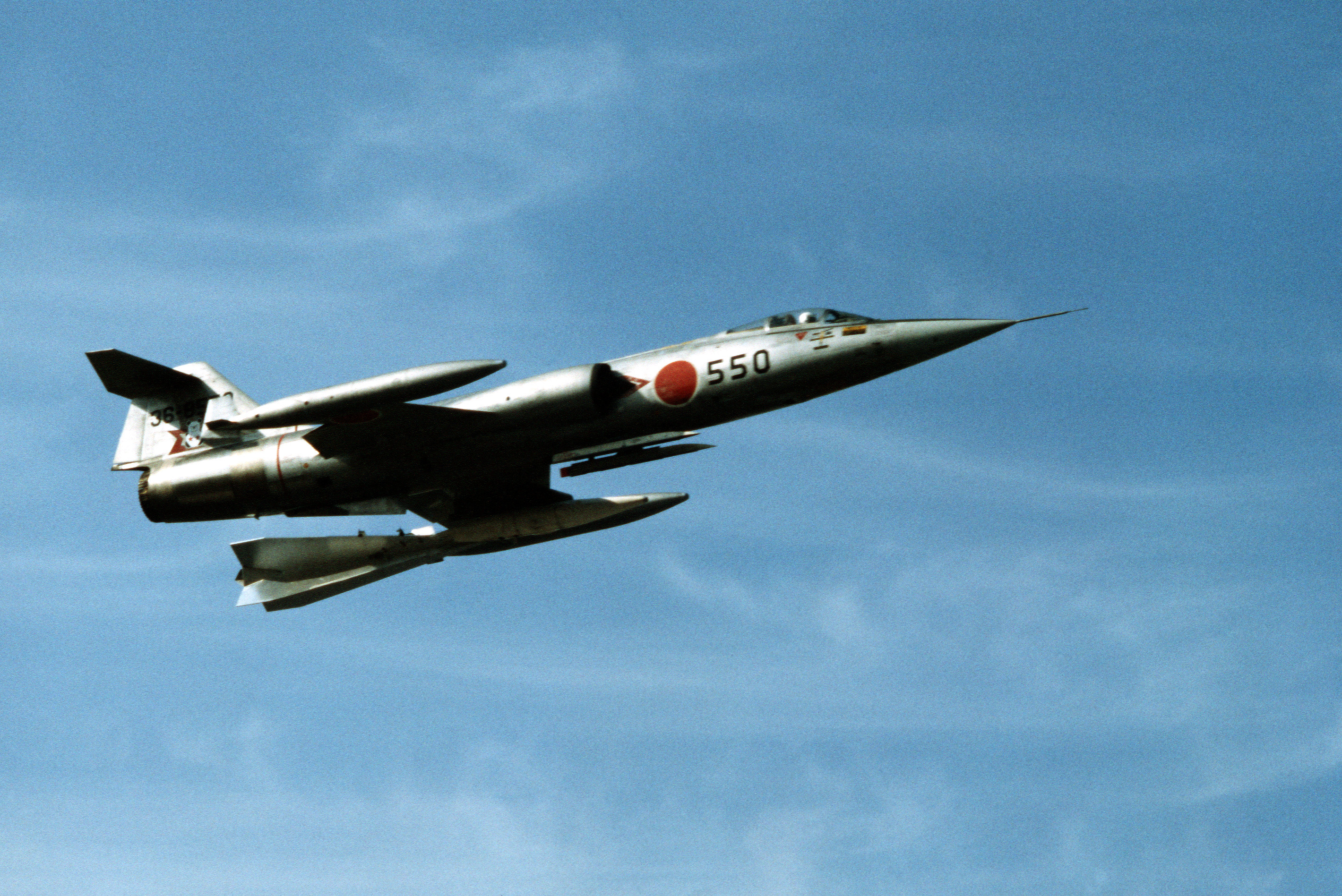 A Mitsubushi F-104J Starfighter aircraft (s/n 36-8550) of the Japanese Air Self Defense Force in flight with a target sleeve during training exercise Cope North '83-1. (U.S. Air Force photo by Staff Sergeant Steve McGill)